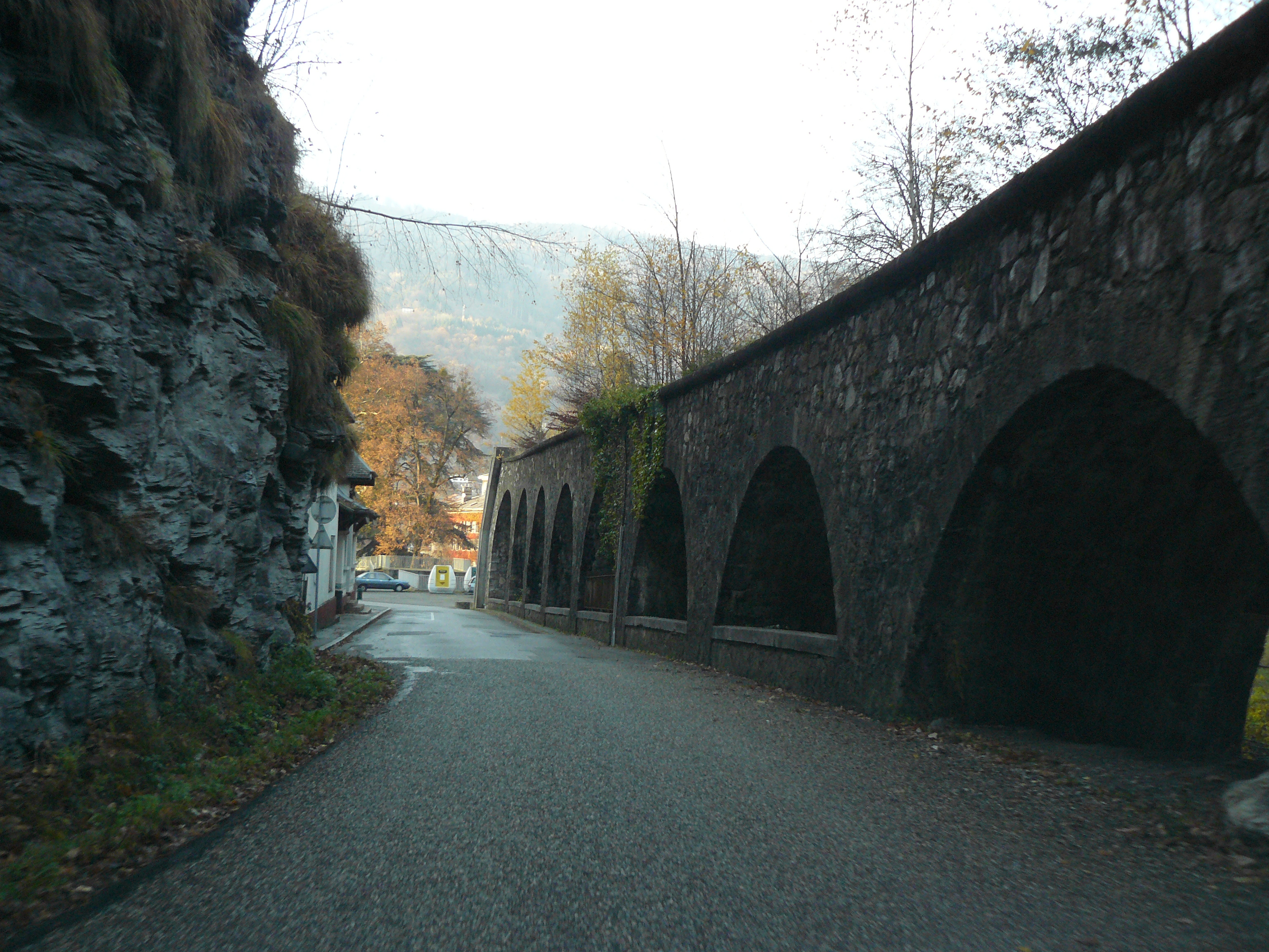 A view of an old bridge build for a local industrial railway at Allevard (Isère, France)